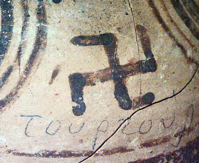 Svastika in a Minoan pottery piece from Crete